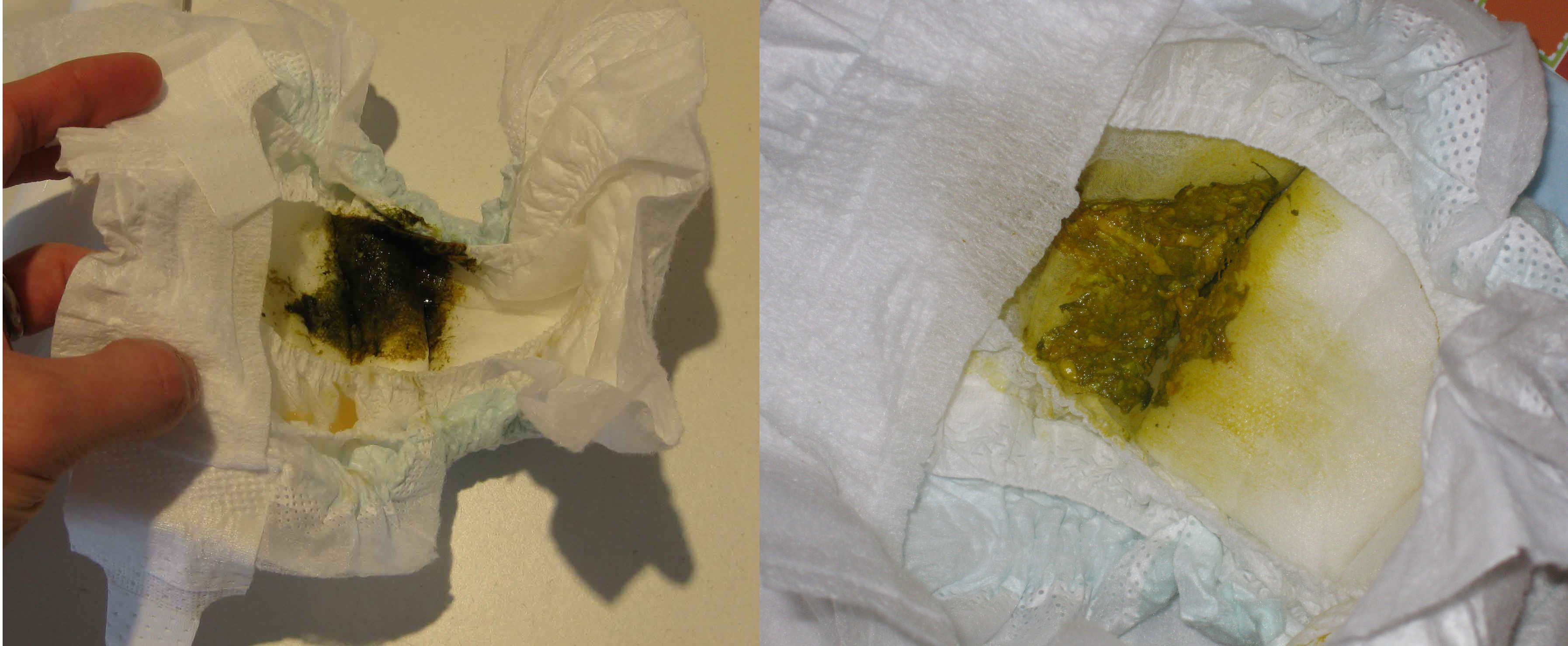 Comparison of meconium and faeces from a breastfed infant